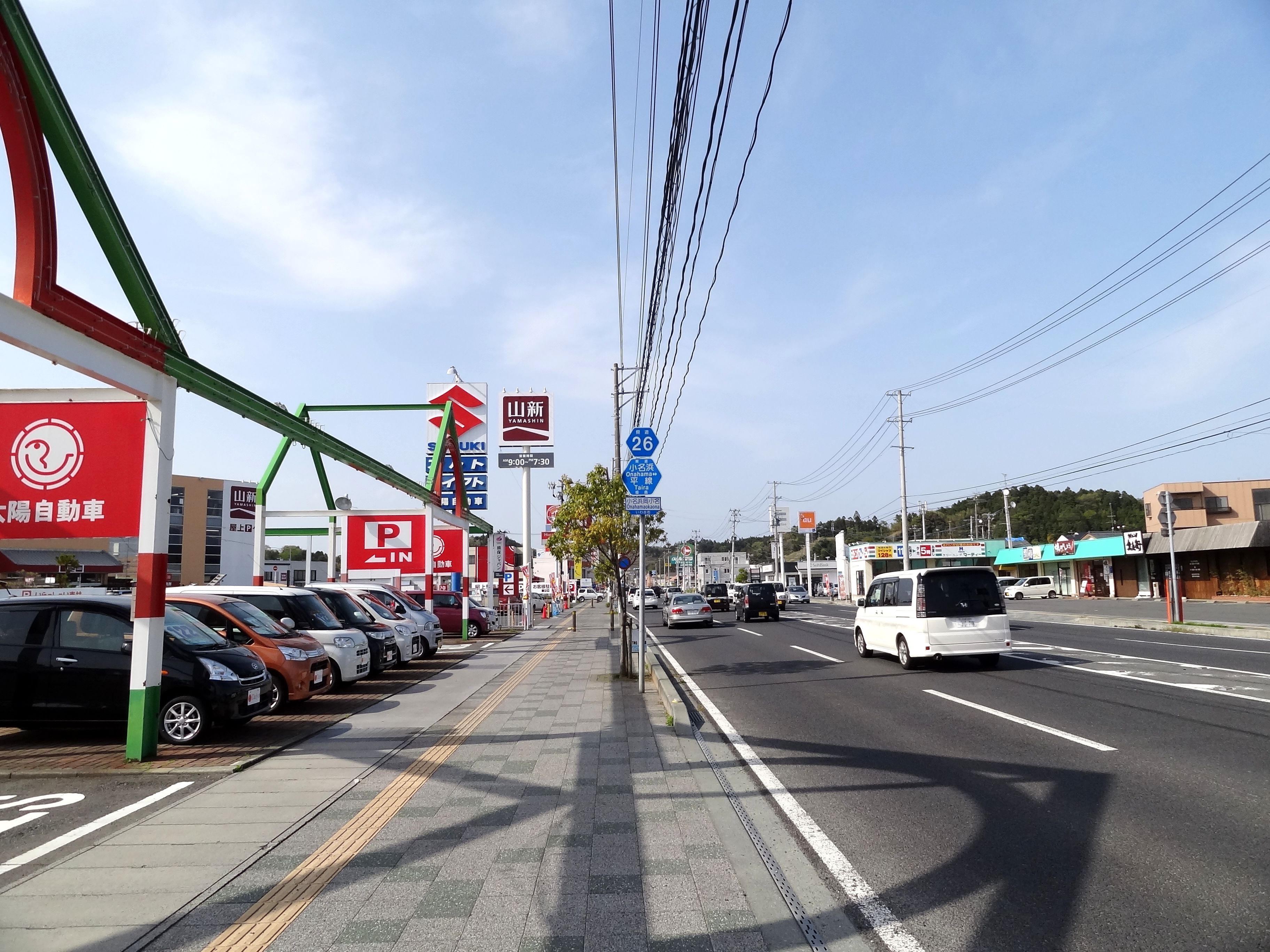 The Fukushima Prefectural Road Route 26 in Onahama Okaona, Iwaki City